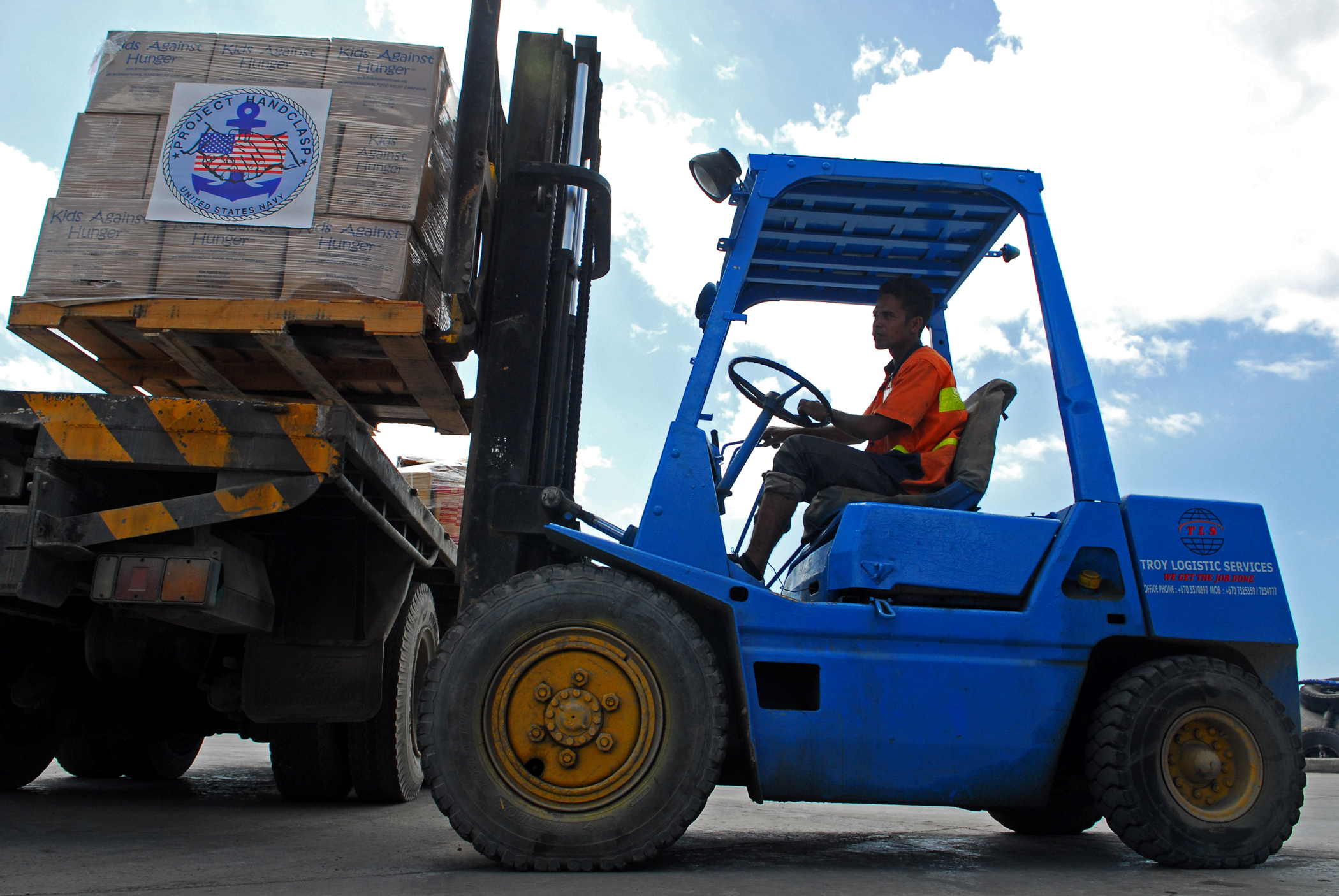 DILI, Timor-Leste (Aug. 11, 2010) A Timor-Leste pier worker offloads a Project Handclasp pallet from the Military Sealift Command hospital ship USNS Mercy (T-AH 19) during a port visit to Timor-Leste supporting Pacific Partnership 2010. Pacific Partnership is the fifth in a series of annual U.S. Pacific Fleet humanitarian and civic assistance endeavors to strengthen regional partnerships. (U.S. Navy photo by Mass Communication Specialist 2nd Class Eddie Harrison/Released)